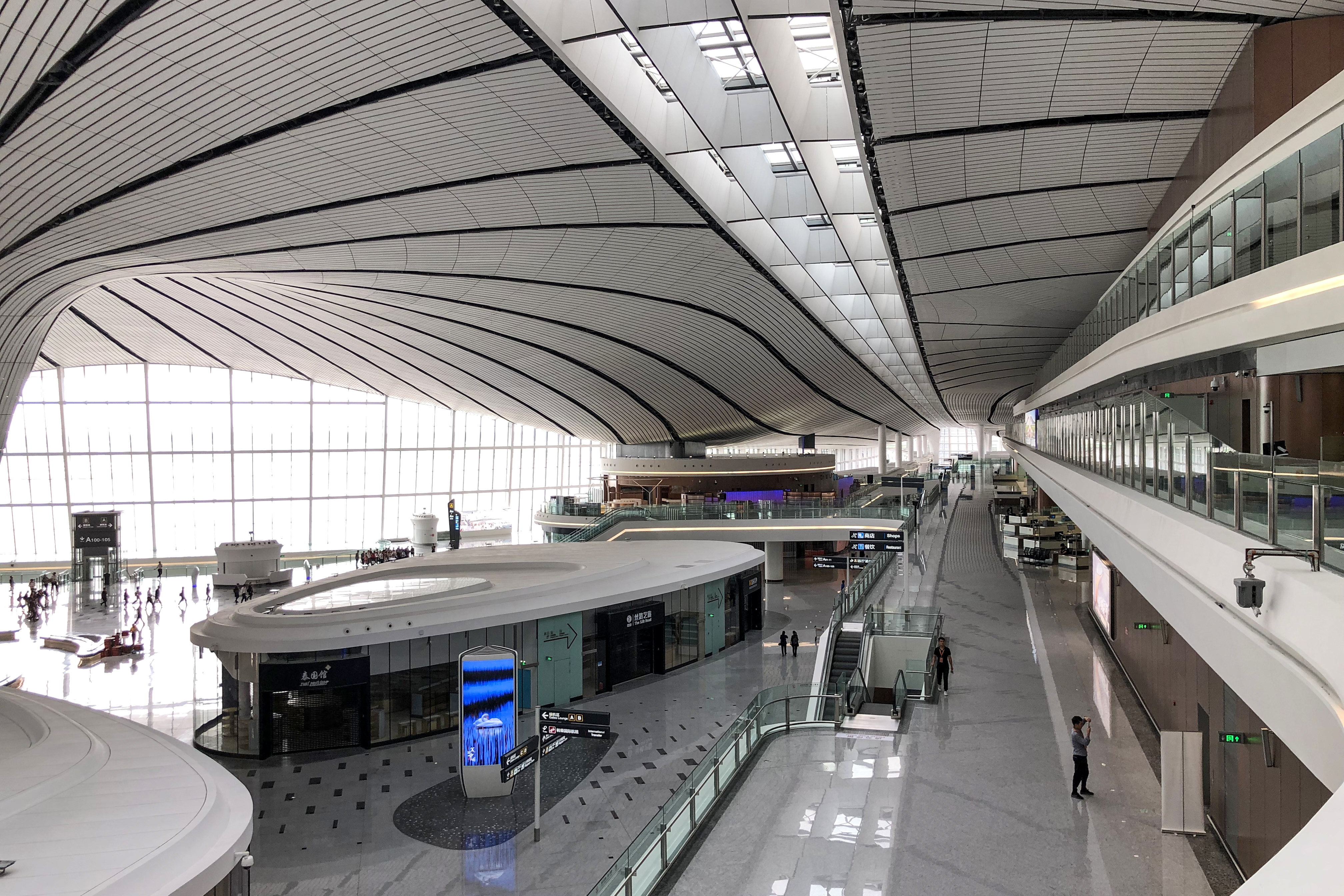 For domestic flights.